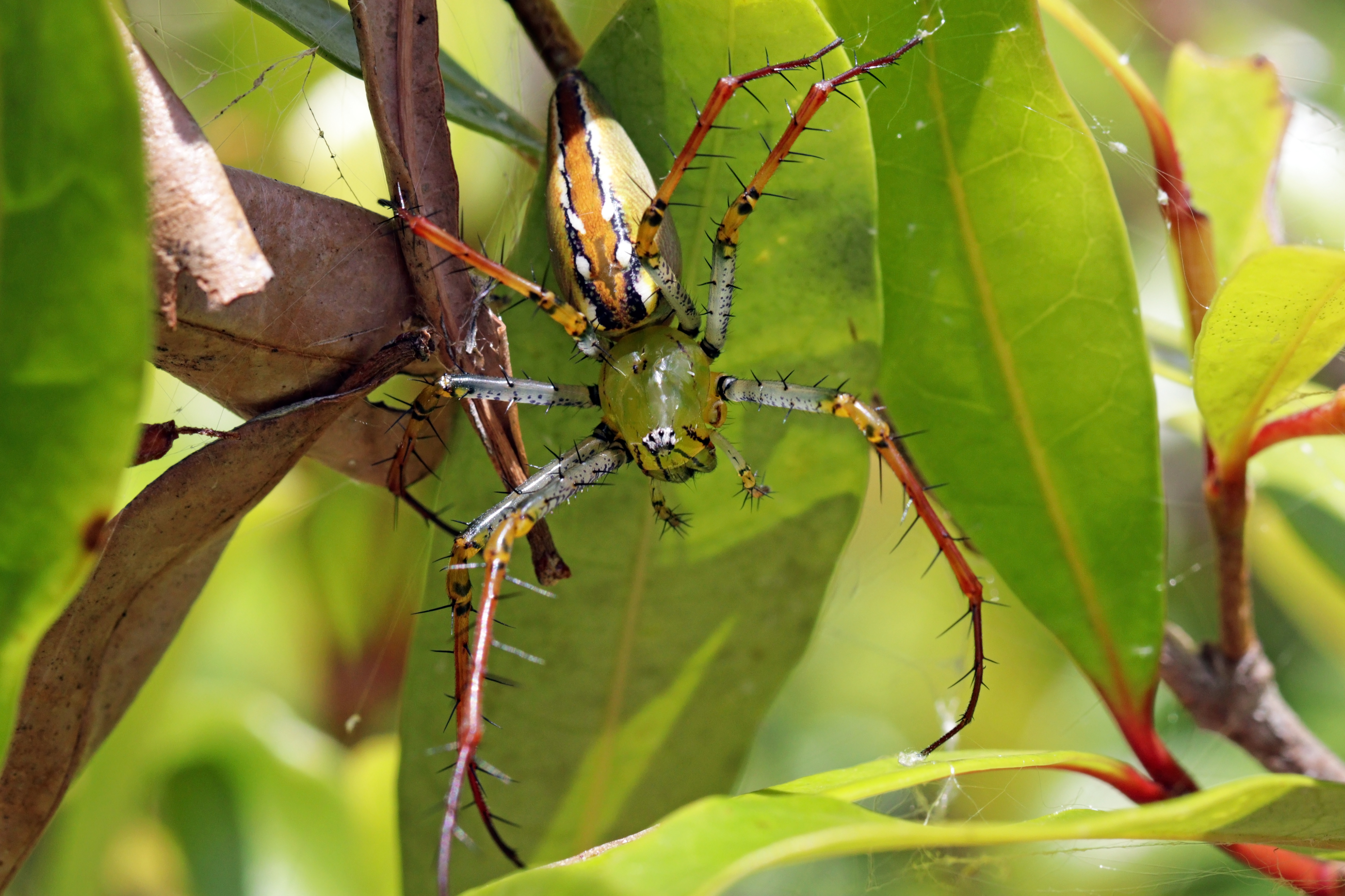 Malagasy green lynx spider (Peucetia madagascariensis) female, Isalo national Park, Madagascar